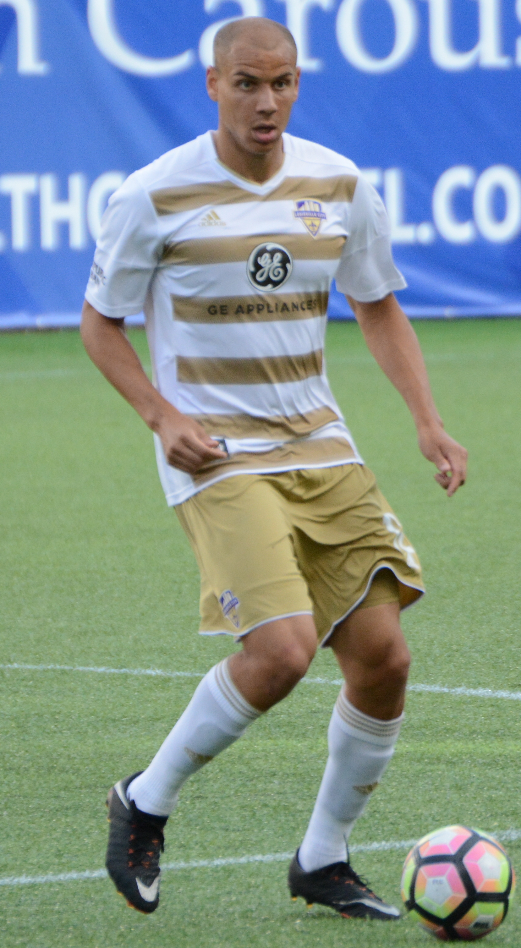 Brandon Artis, Luke Spencer, Brian Ownby, Corben Bone Taken at a Lamar Hunt U.S. Open Cup match between FC Cincinnati and Louisville City FC at Nippert Stadium in Cincinnati, Ohio on May 31, 2017.